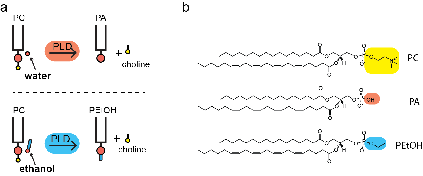 Cartoon explaining the process of phospholipase D transphosphatidylation using ethanol.